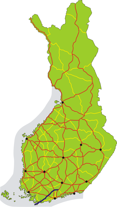 Map of the main road (highway) 25 in Finland, shown in dark blue. The other 1st class main roads (numbers 1–29) are red, 2nd class main roads (numbers 40–98) yellow. Black dots show the 12 biggest urban areas.